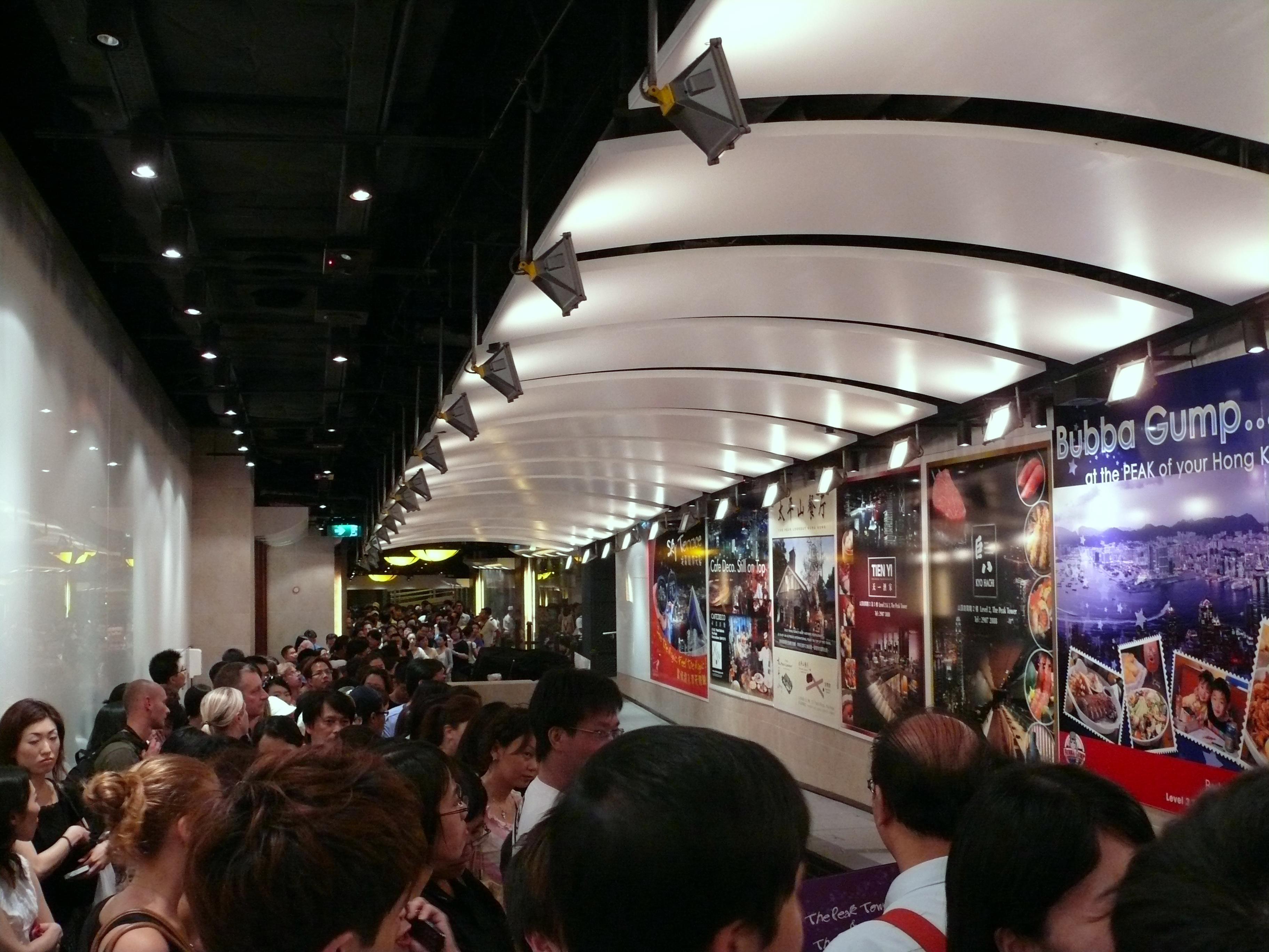 The lower terminus station of the Peak Tram, Hong Kong.